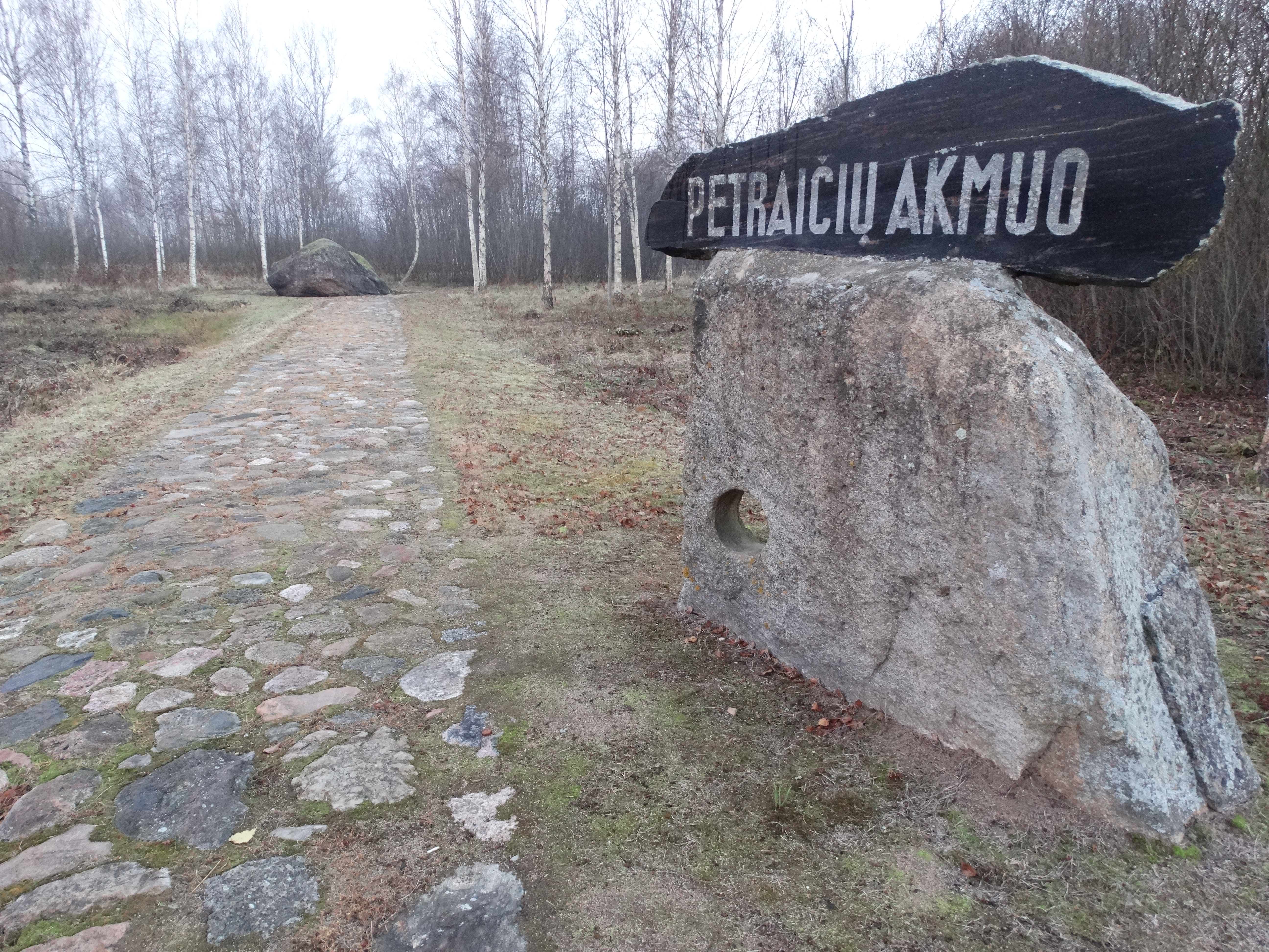 Petraičių Stone, Pasvalys District, Lithuania